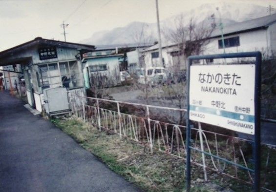 Naganodentetsu Nakanokita Station name&waiting room (2002 March)